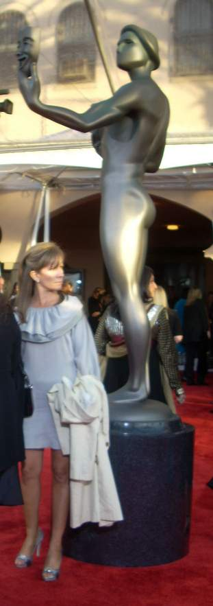 Statuette The Actor of Screen Actors Guild Awards